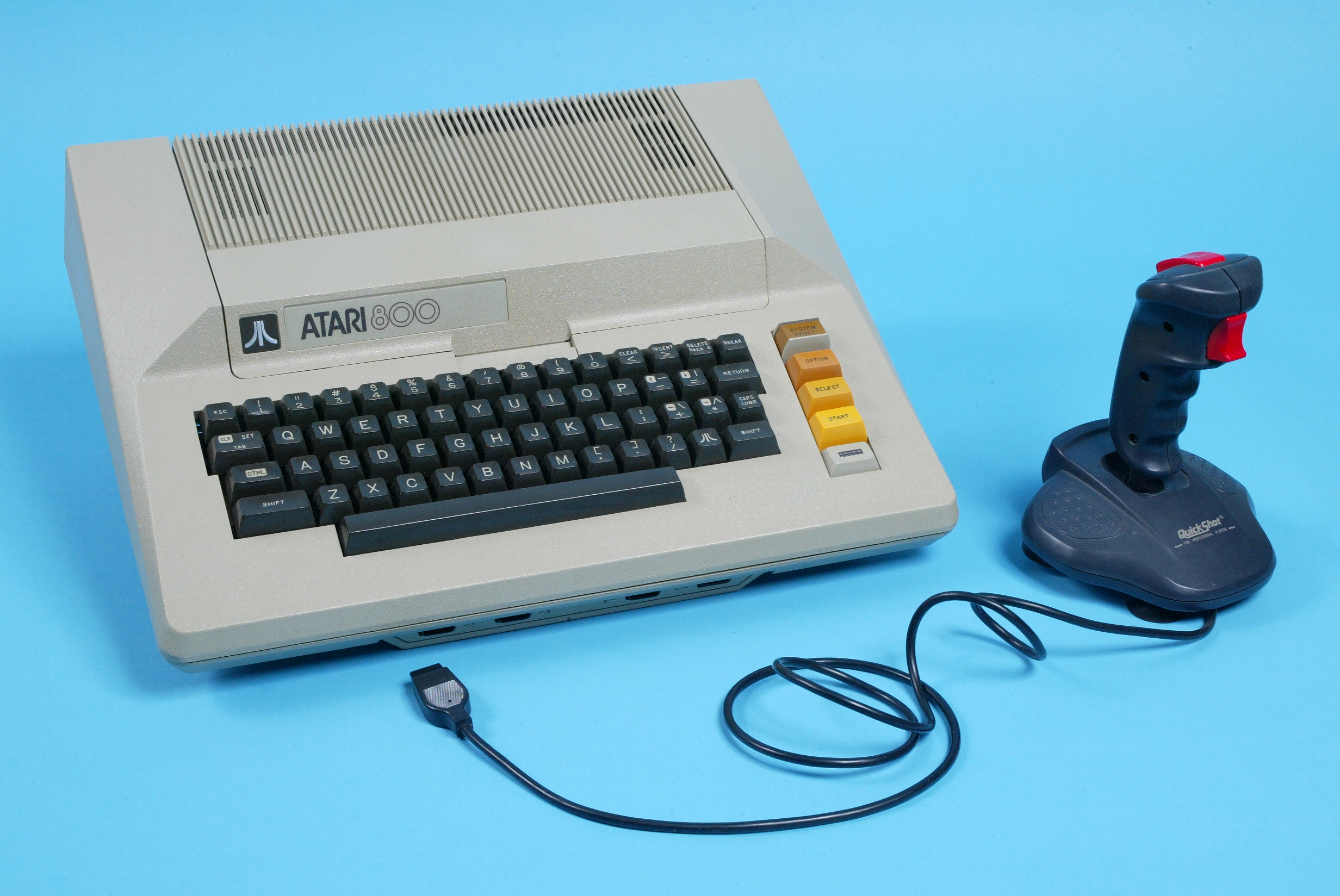 An Atari 800 home computer in the permanent collection of The Children’s Museum of Indianapolis.